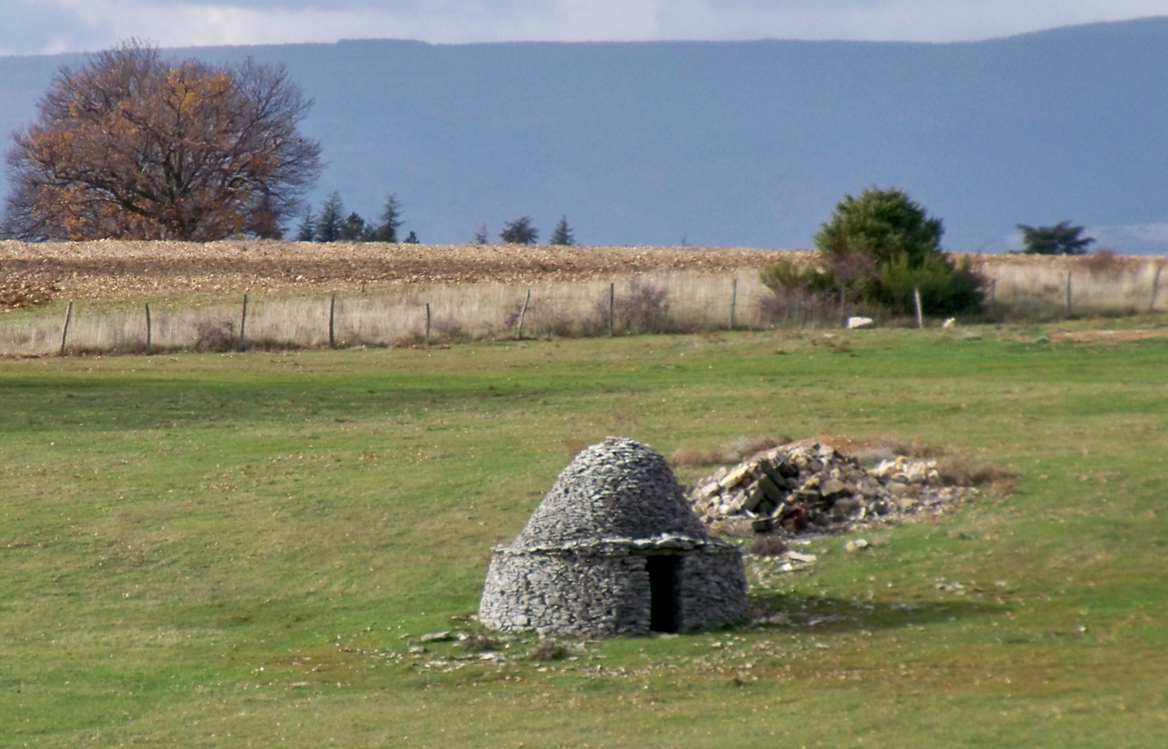 Dry stone hut going by the local name of borie at Revest-du-Bion, Alpes-de-Haute-Provence, France